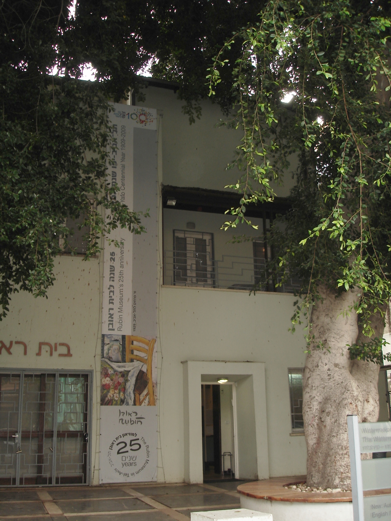 The Rubin Museum (Tel Aviv)